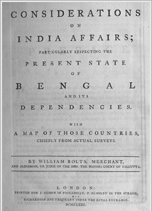 Colonel Bolts' book on India & Bengal. Full Title: "Considerations on India(n) Affairs: Particularly Respecting the Present State of Bengal and it's Dependencies. With a Map of those Countries, Chiefly from Actual Surveys"